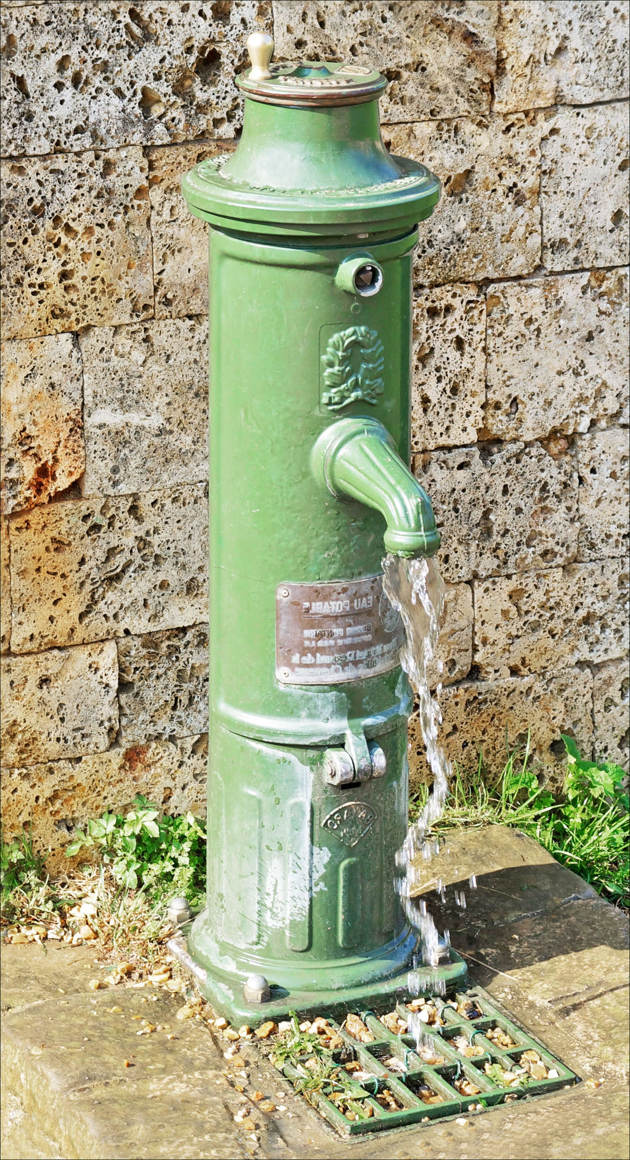 Bayard fountain with flywheel.